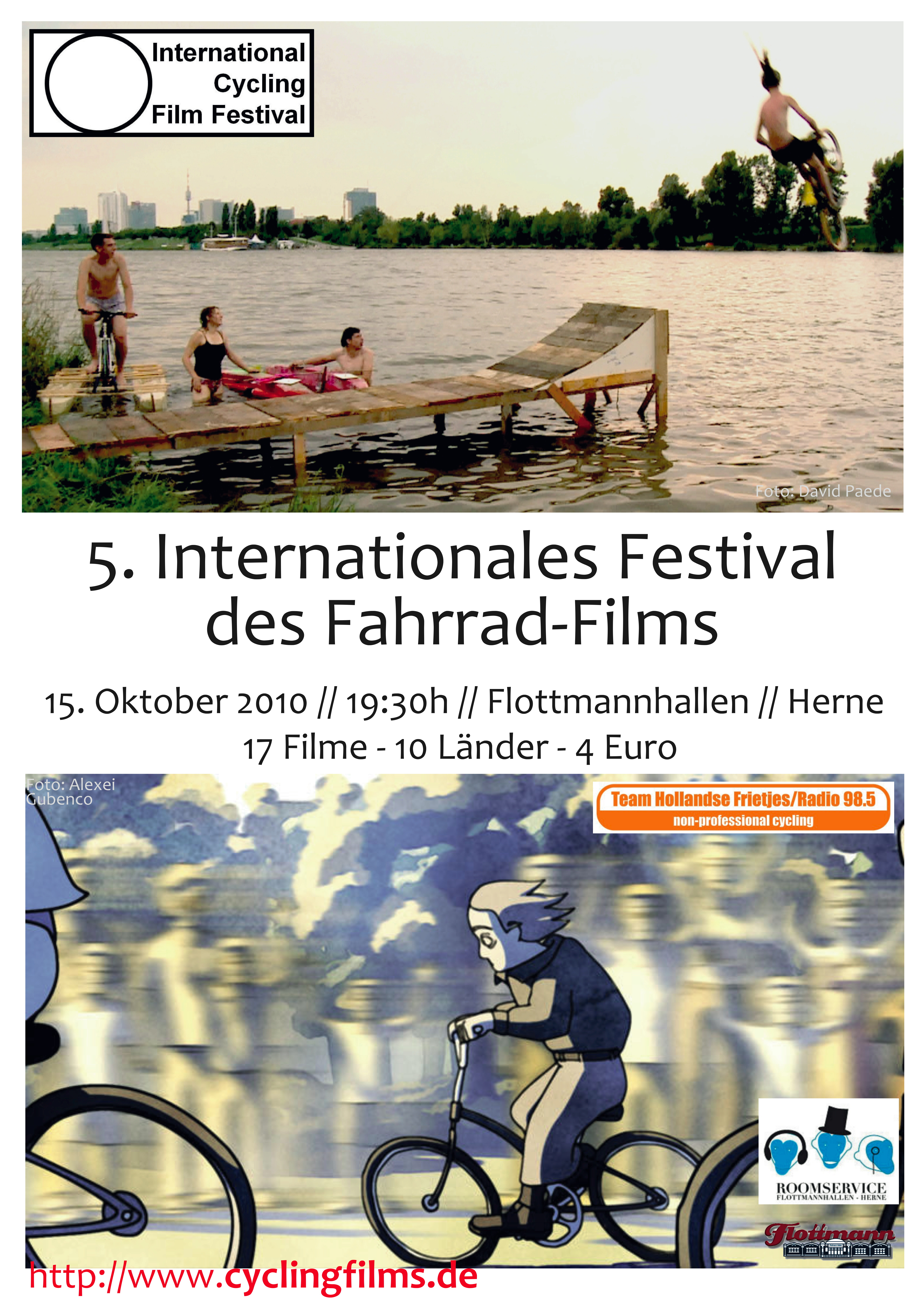 Official poster of the 5th International Cycling Film Festival 2010